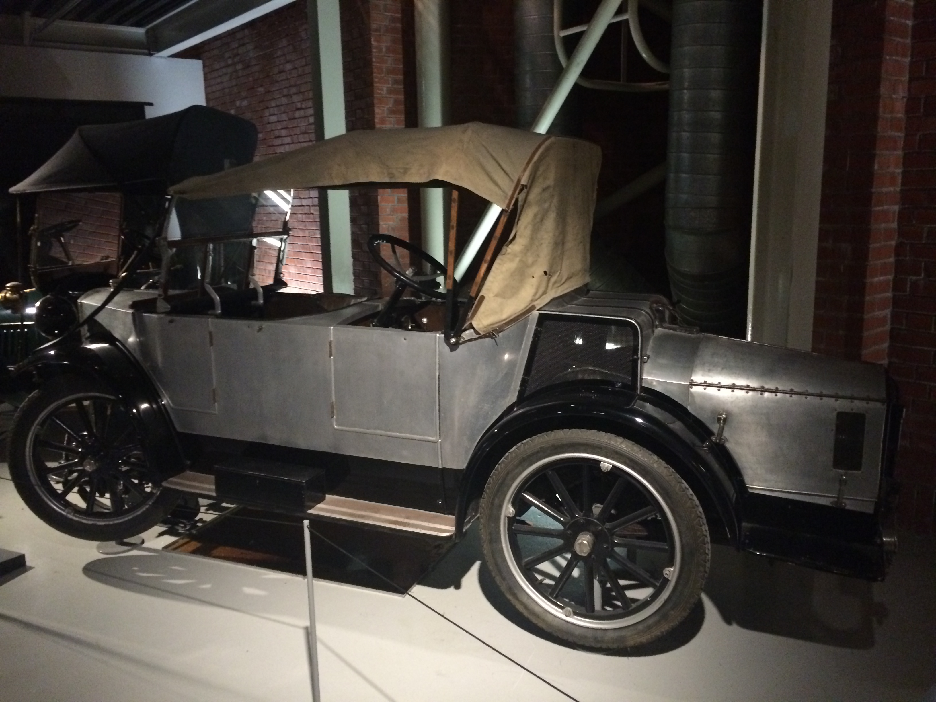 Military motorsled-car produced by Mr Hans Christian Bjering at Gjïvik in Norway, 1925. This was the second specimen of the kind. Mr Bjering started producing cars in 1918.